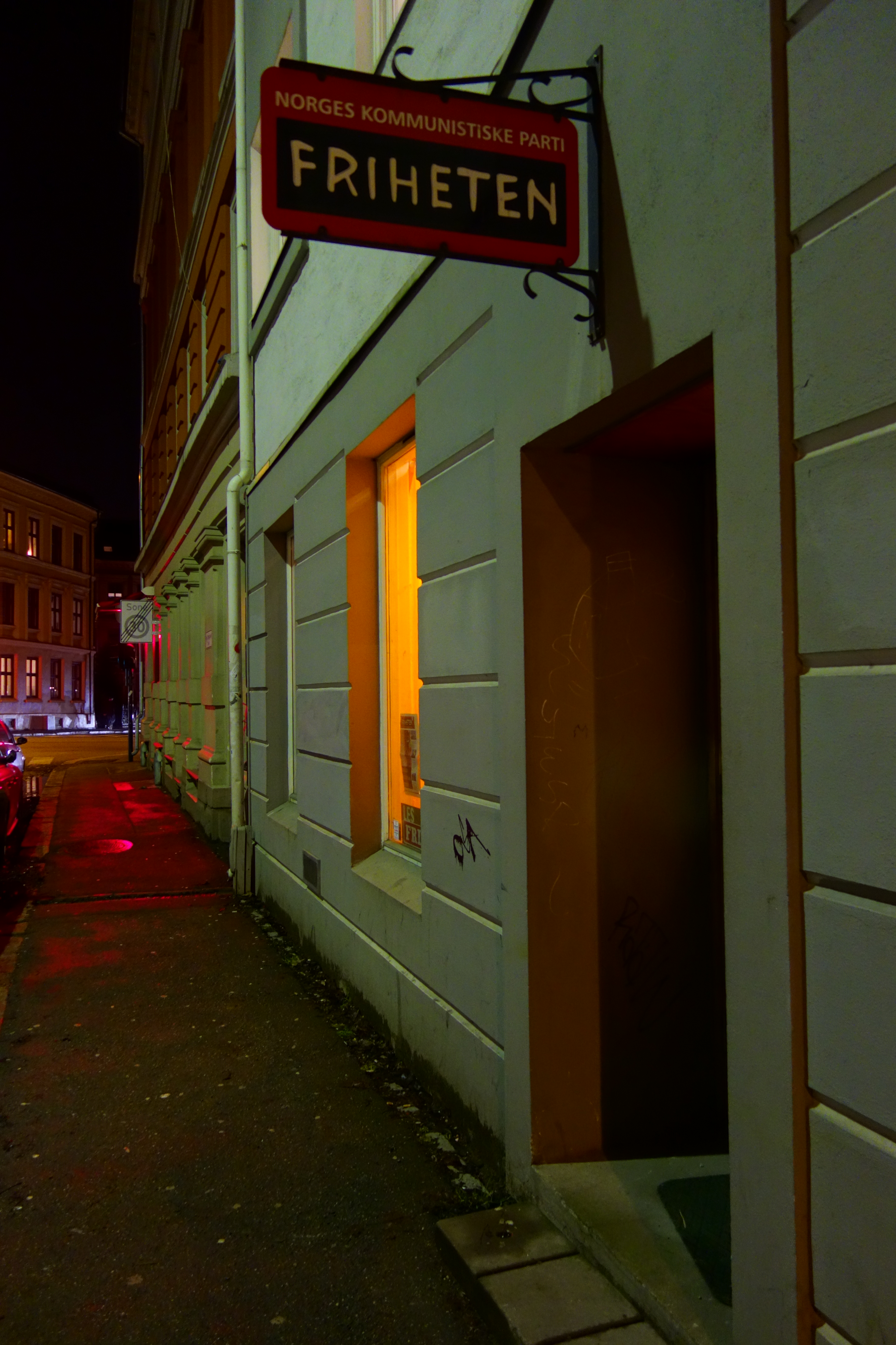 Sign outside the editorial offices of the paper Friheten ("Freedom") in Oslo, Norway